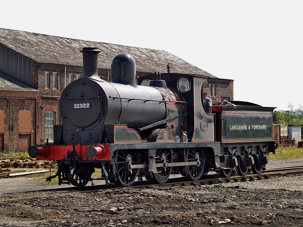 Former Lancashire and Yorkshire Railway Aspinall 0-6-0 ‘27’ class locomotive number 1300 at Buckley Wells on the East Lancashire Railway. Sunday 27th July 2008